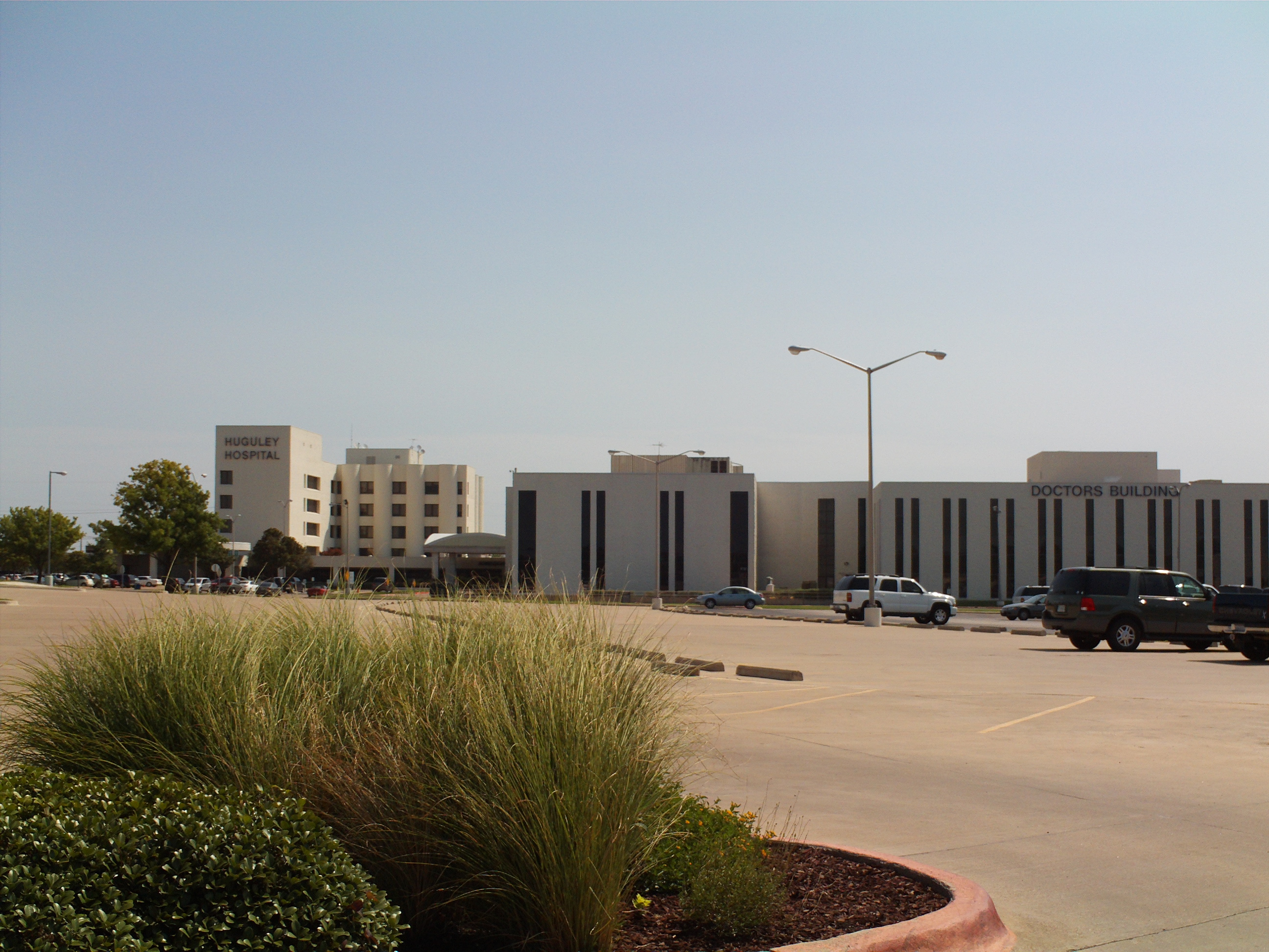 Huguley Memorial Medical Center and associated Doctor's building